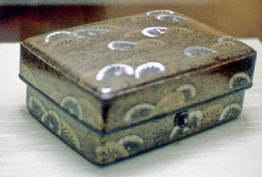 Inlaid Maki'e Paper Box with 'Wheels in Flow' Design 22.5x30.5x13cm, Heian period 11-12th century, Tokyo National Museum, Tokyo, Japan